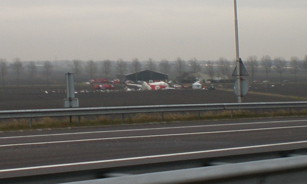 Turkish Airlines Flight 1951 was a scheduled flight from Istanbul, Turkey to Amsterdam, Netherlands. The Boeing 737-800 aircraft broke up into three parts due to the crash into a field outside Amsterdam's Schiphol Airport at 9:31 UTC (10:31 CET) on 25 February 2009. Although the wreck did not catch fire, an official press conference confirmed the death of nine people and the injury of eighty. The crash site is located approximately 3 kilometres (1.9 mi) north of the Polderbaan runway (18R-36L), just beside the A9 motorway. The cause of the crash has not yet been determined.